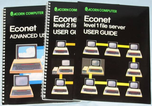 ANB22 BBC Econet Upgrade manuals.The BBC Micro motherboard, all issues, has an unpopulated bit on the motherboard in the back left (looking from the front) where the Econet interface is installed. This is the upgrade pack, the one I have comes in a padded bag (top picture). In the bag contains the Econet level 1 File server User Guide, the Econet Level 2 File Server User Guide and the Aconet Advanced User Guide (middle picture). The upgrade itself consists of a packet of resistors, some ICs, a socket and the cable (bottom picture). Some soldering skill is required to install it!